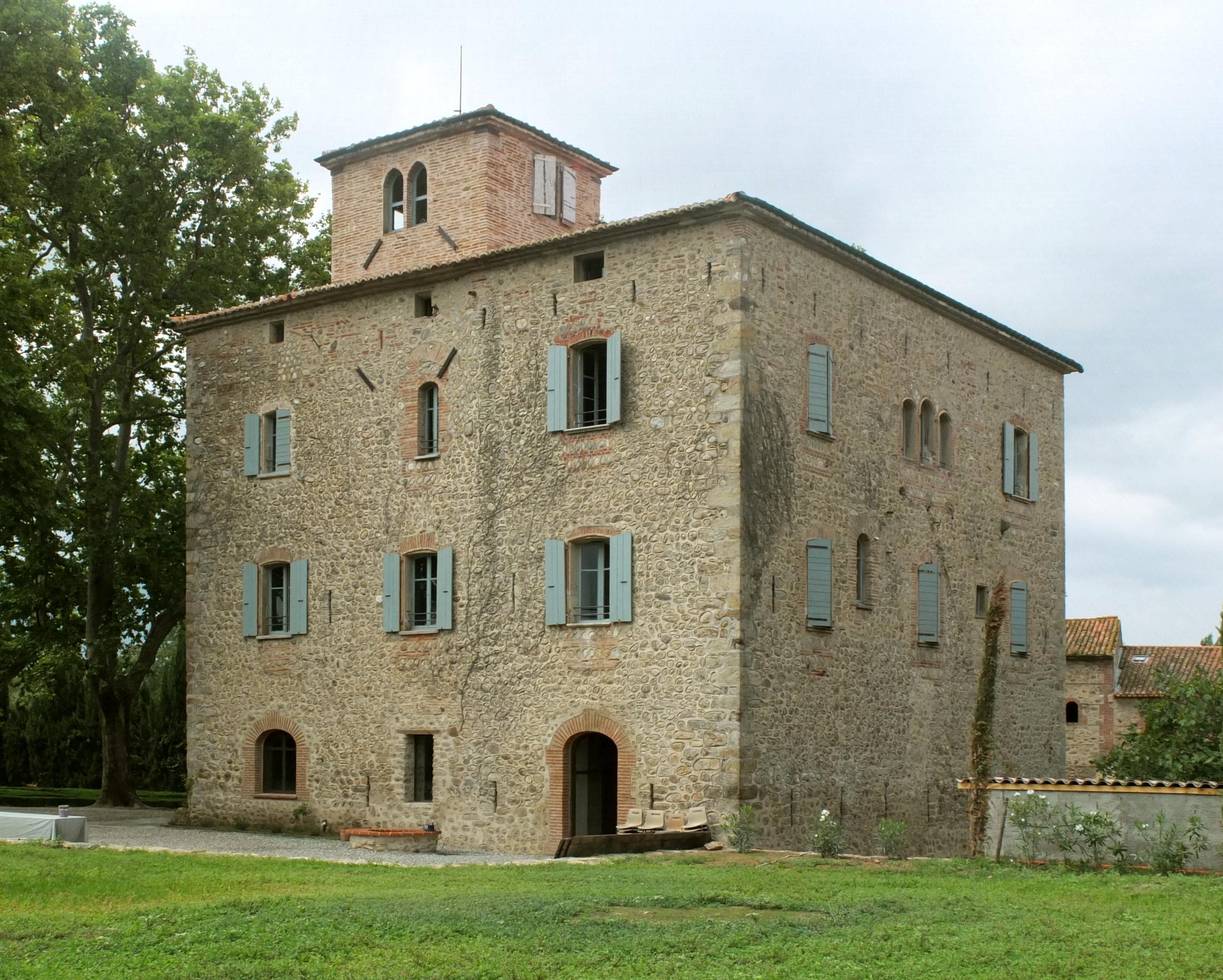 Château de Villeclare in Palau-del-Vidre, France (view NW).